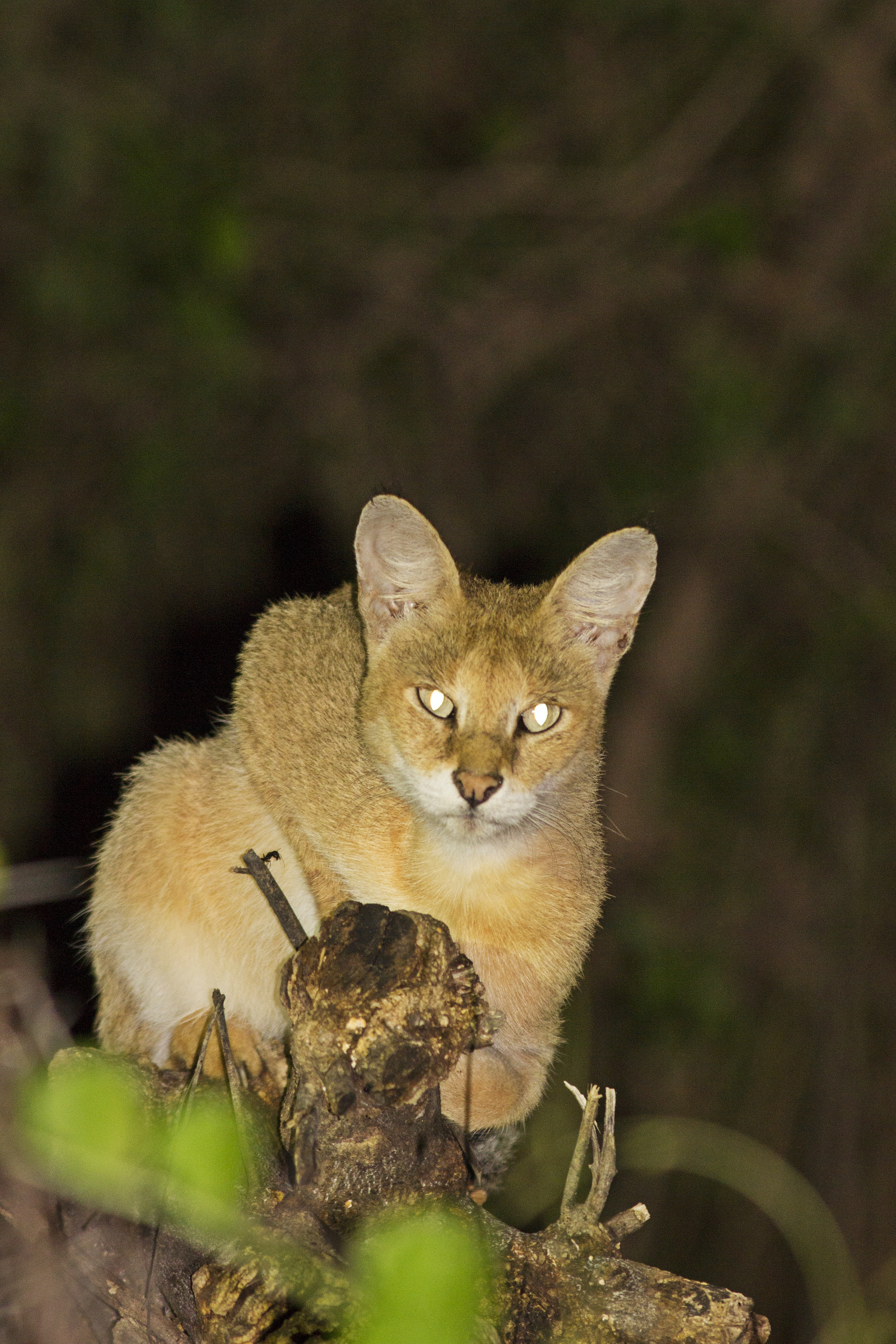 A jungle cat waiting roadside for roadkills in monsoon (Frogs, Snakes, Insects etc), later she is feasting on roadkill when traffic is over. She had 3 littles litters observed 2-3 back.